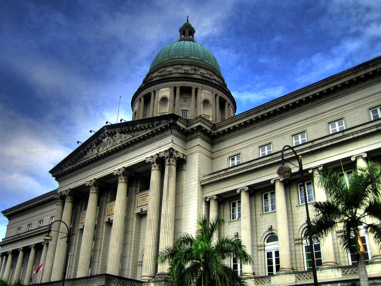 The Old Supreme Court Building along Saint Andrew's Road, Singapore.